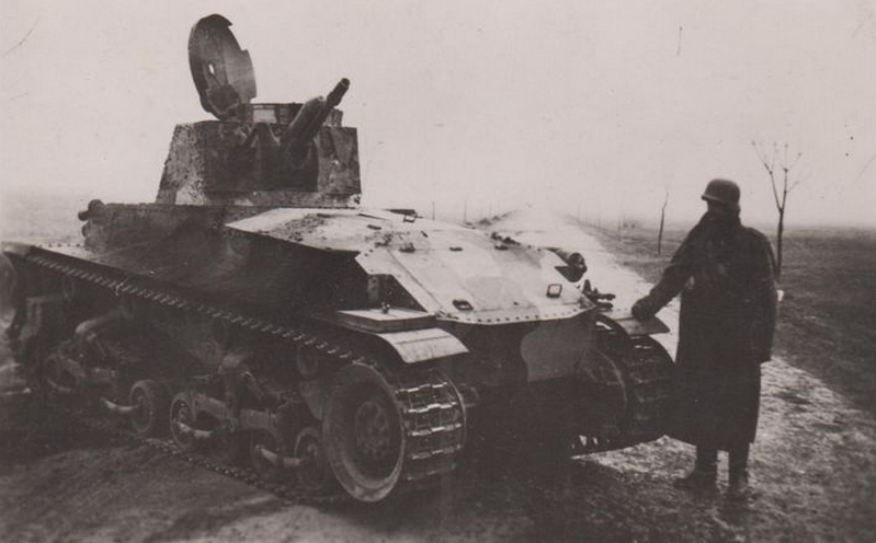 Hungarian invasion of Carpatho-Ukraine. This LT vz. 35 (No. 13903) participated in the Czechoslovak counterattack at Fančíkovo on 14 March 1939 but was hit three times by an anti-tank gun. Its driver Antonín Seidler was killed in action. The burnt out tank was captured by the Hungarians.